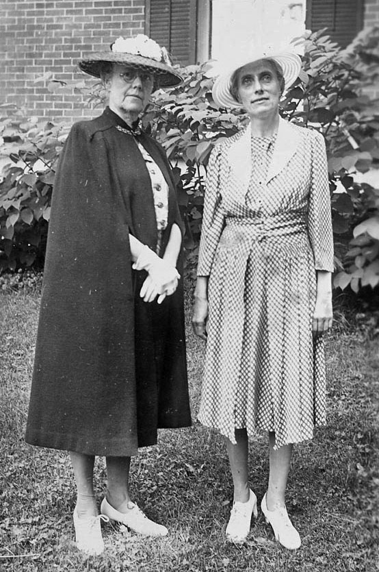 Julia Grace and Evelyn Wales, from the Library and Archvies Canada